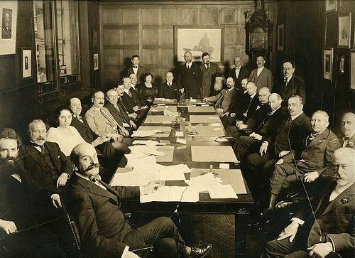 Jews of the U.S. who have distributed twelve million dollars of the relief moneys raised by American Jewry since the beginning of WWI. Jacob Schiff, philanthropist, international banker and one of the founders of the American Jewish Historical Society, appears in the lower right corner. Seated from left to right are: Felix M. Warburg, of Kuhn Loeb & Co., Chairman of the Committee; Rabbi Aaron Teitelbaum, Corresponding Secretary of the Joint Distribution Committee; Mrs. F. Friedman, official stenographer; Dr. Boris D. Bogen, organizer of the branch of the Committee in Holland and a director of the National Conference of Charities; Leon Sanders, President of the Independent Order of Brith Abraham; Harry Fishcel, Treasurer of the Central Relief Committee; Sholem Asch, noted Yiddish writer and Vice Chairman of People's Relief Committee; Alexander Kahn, Chairman of the People's Relief Committee; Jacob Milch; Miss Harriet Lowenstein, woman lawyer and Comptroller of Joint Distribution Committee; Colonel Moses Schonenberg; Rabbi M.Z. Margolies, President of the Agudas Habonim; Israel Friedlander, Jewish Theological Seminary of NY; Paul Baerwald, Associate Treasurer of the Committee; Julius Levy; Peter Wiernik, Chairman of the Central Relief Committee and editor of the Jewish Morning Journal; Meyer Gillis, assistant editor of Forward; Colonel Harry Cutler, Chairman of the Jewish Welfare Board; Cyrus Adler, President of Dropsey College and the Jewish Theological Seminary; Arthur Lehman, Treasurer of the Committee and member of Lehman Bros. Standing from left to right: Abraham Zucker, People's Relief Committee; Isadore Hershfield, who established communication between Jewish families in Europe and America; Rabbi Meyer Berlin, Vice President of the Central Relief Committee; Stanley Bero, Central Relief Committee; Louis Topkis; Morris Engelman, financial secretary of the Central Relief Committee and originator of the plan for American Relief for the Jewish War Sufferers.